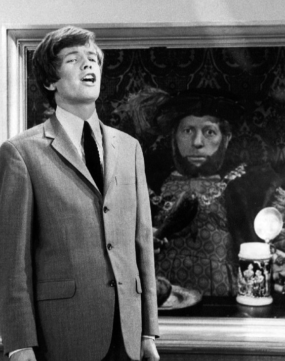 Photo of Peter Noone and Danny Kaye from the television program The Danny Kaye Show. As Noone sings his hit "Henry the VIII", the king's portrait behind him comes to life (Danny Kaye).